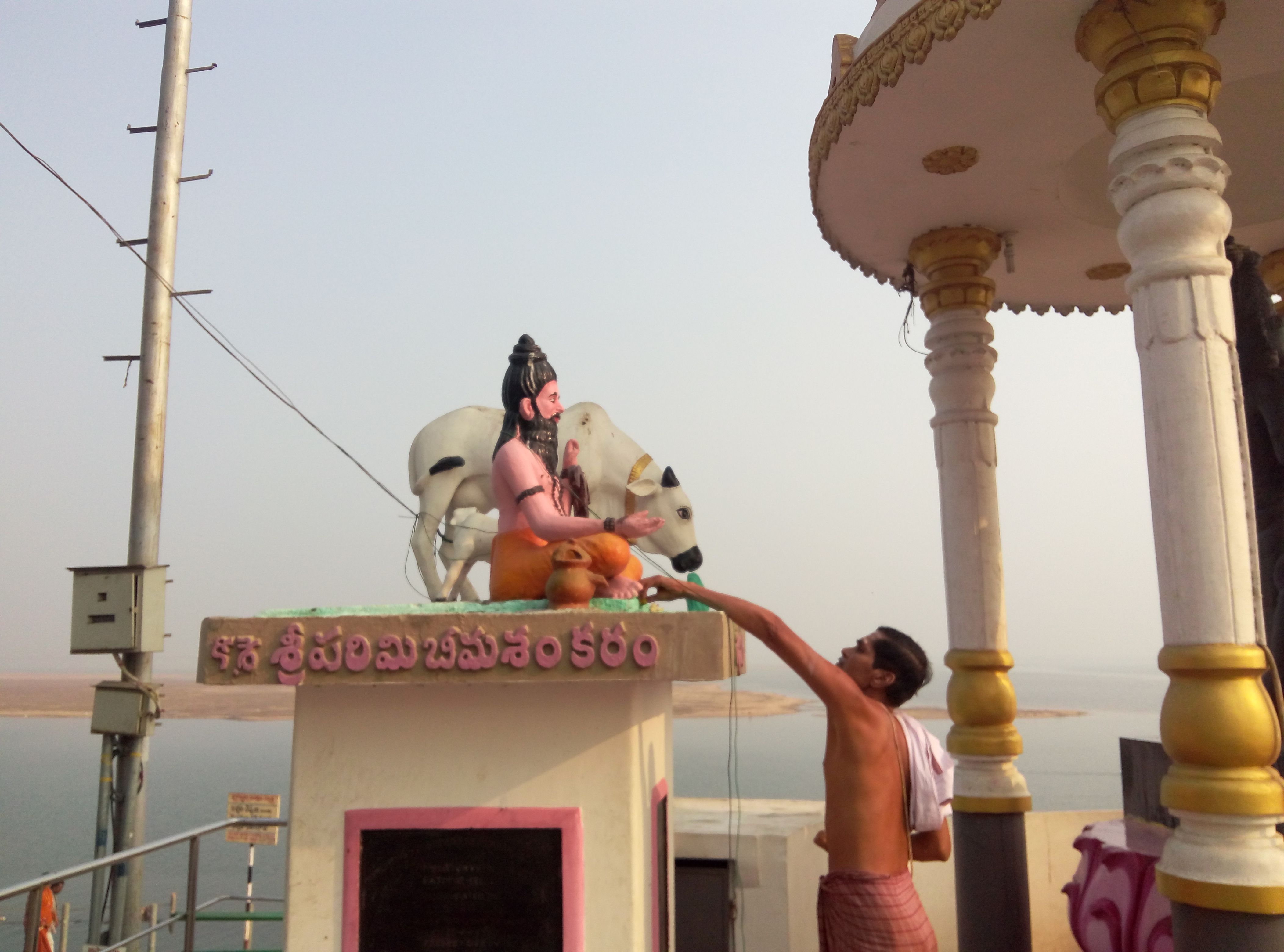 Statue depicting Govu vatsa and Gowtham rishi legend related to Godavari river origin at Goshpada kshetram, Kovvur